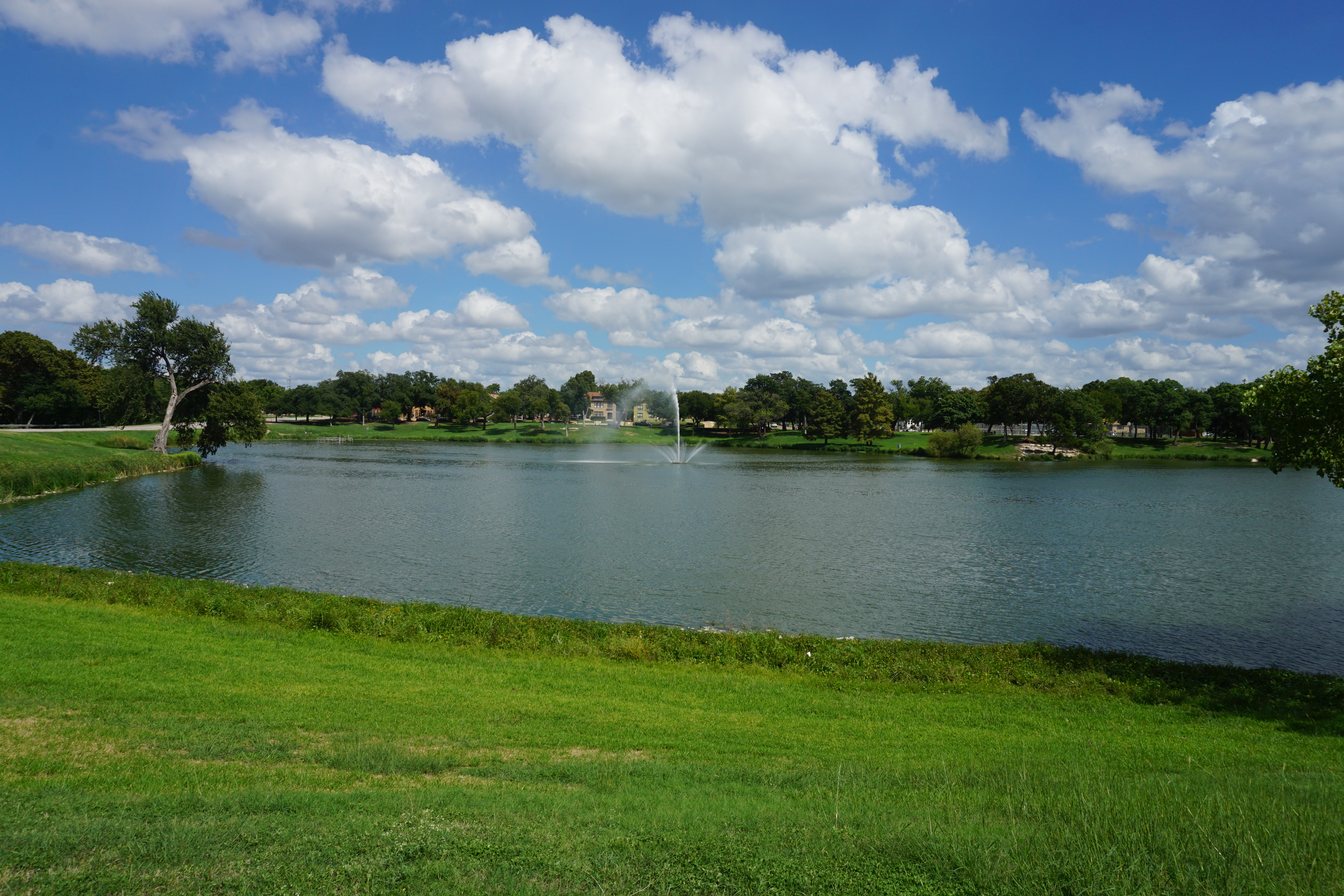 Lake Cliff Park in the Oak Cliff neighborhood in Dallas, Texas (United States).